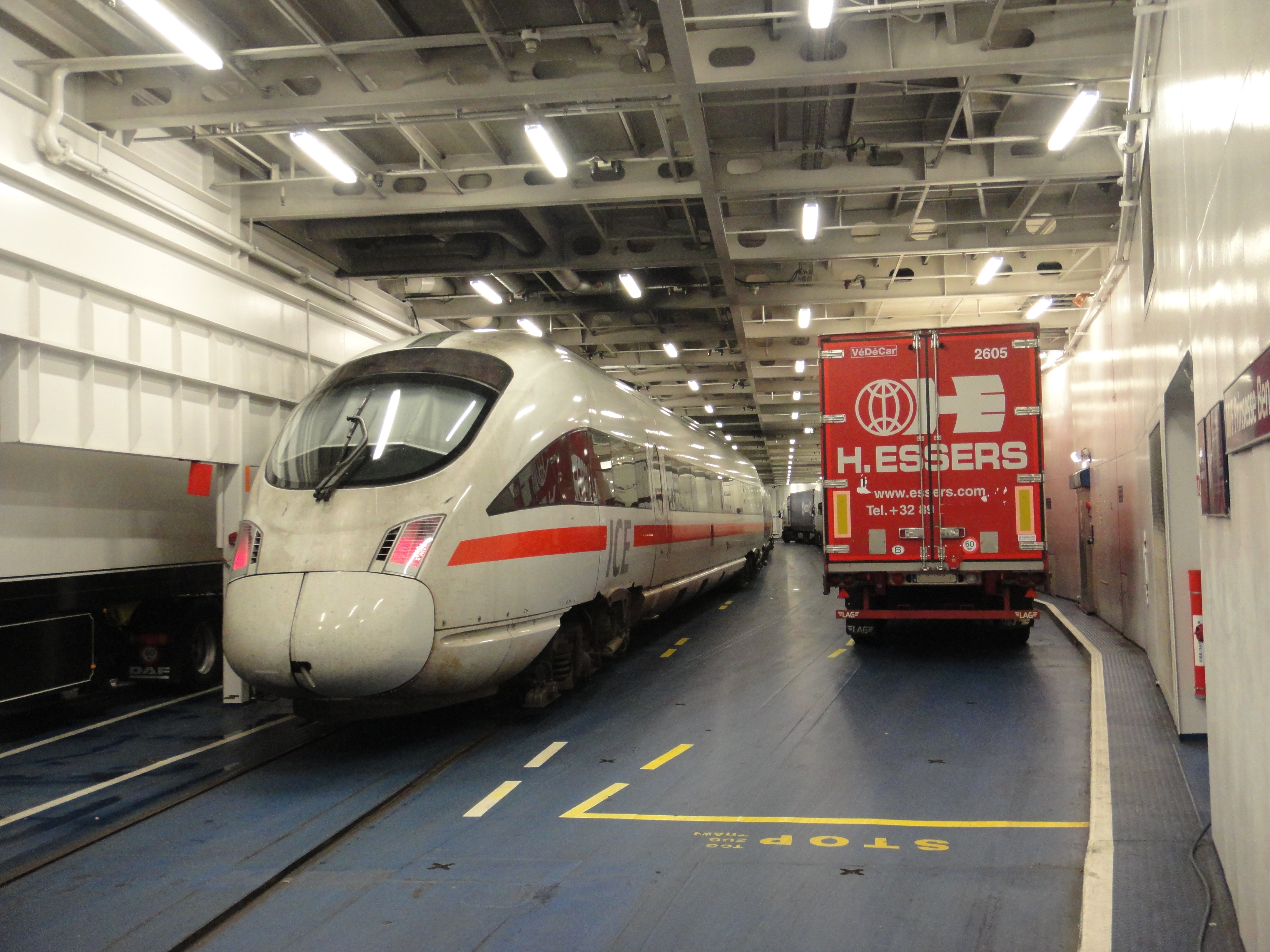 Car deck of Prinsesse Benedikte, Scandlines.(Puttgarden - Rødby) ICE-TD was carried.